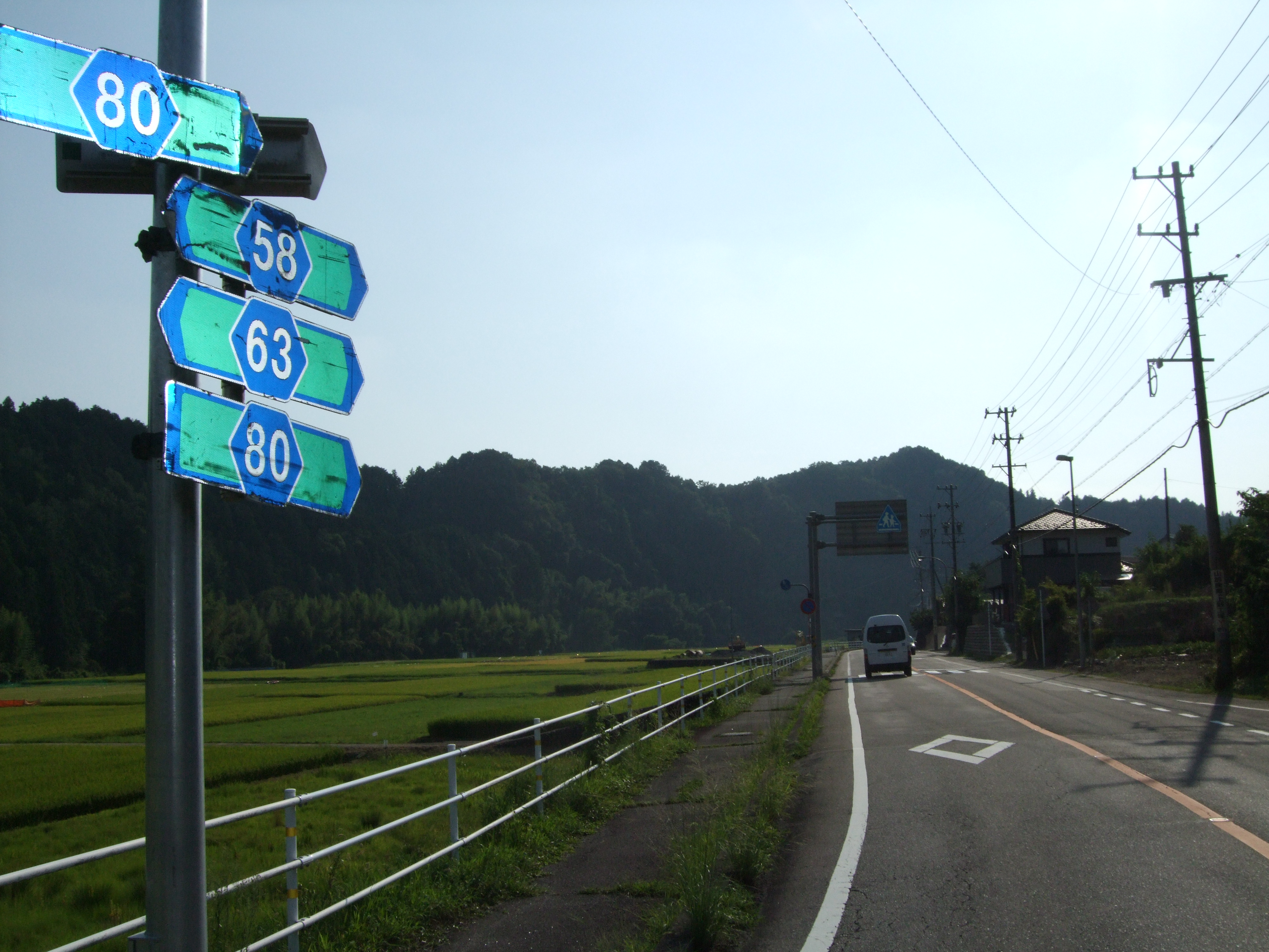 Gifu prefecture road No.58,63,80